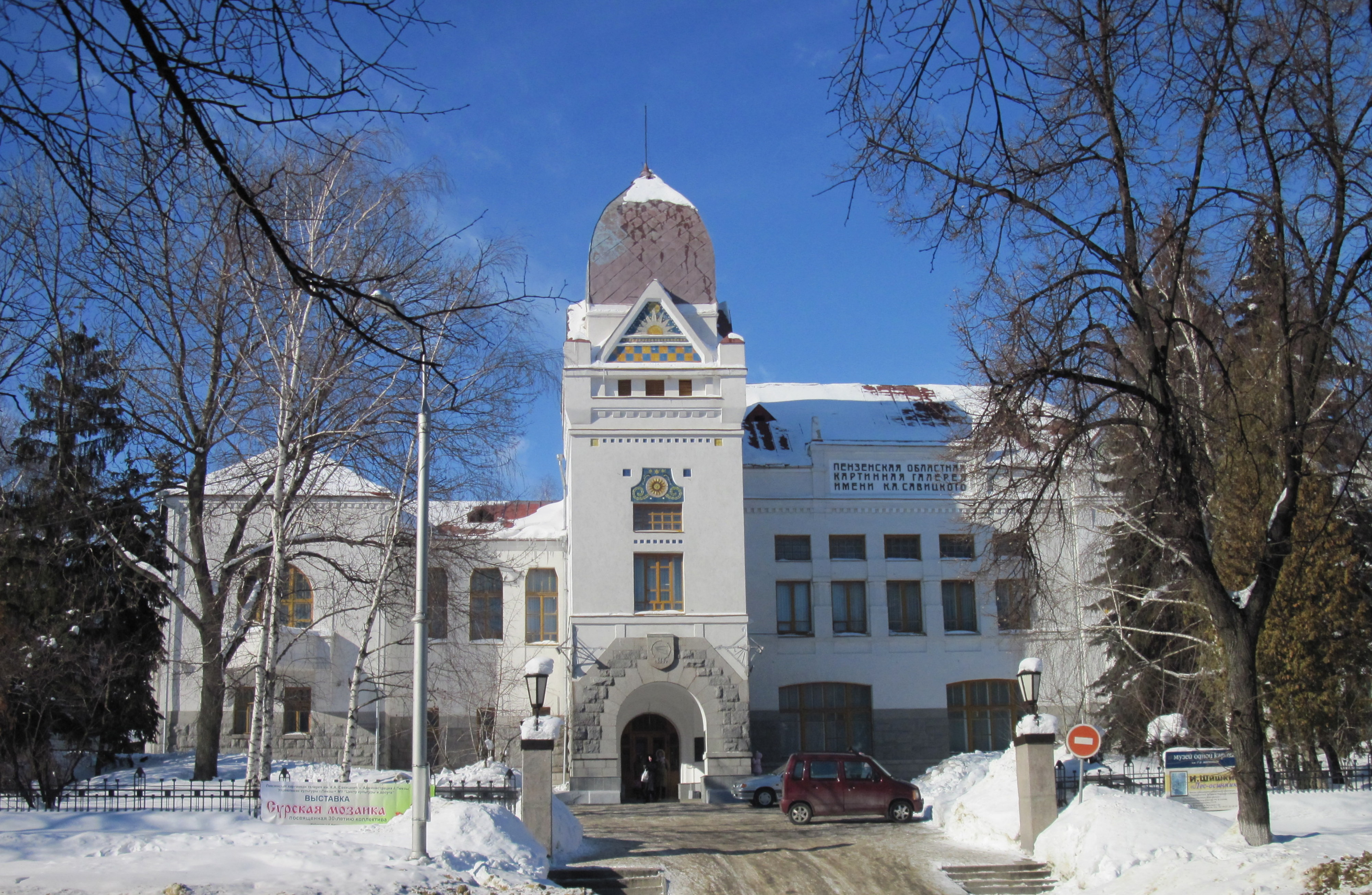 Penza Art Gallery